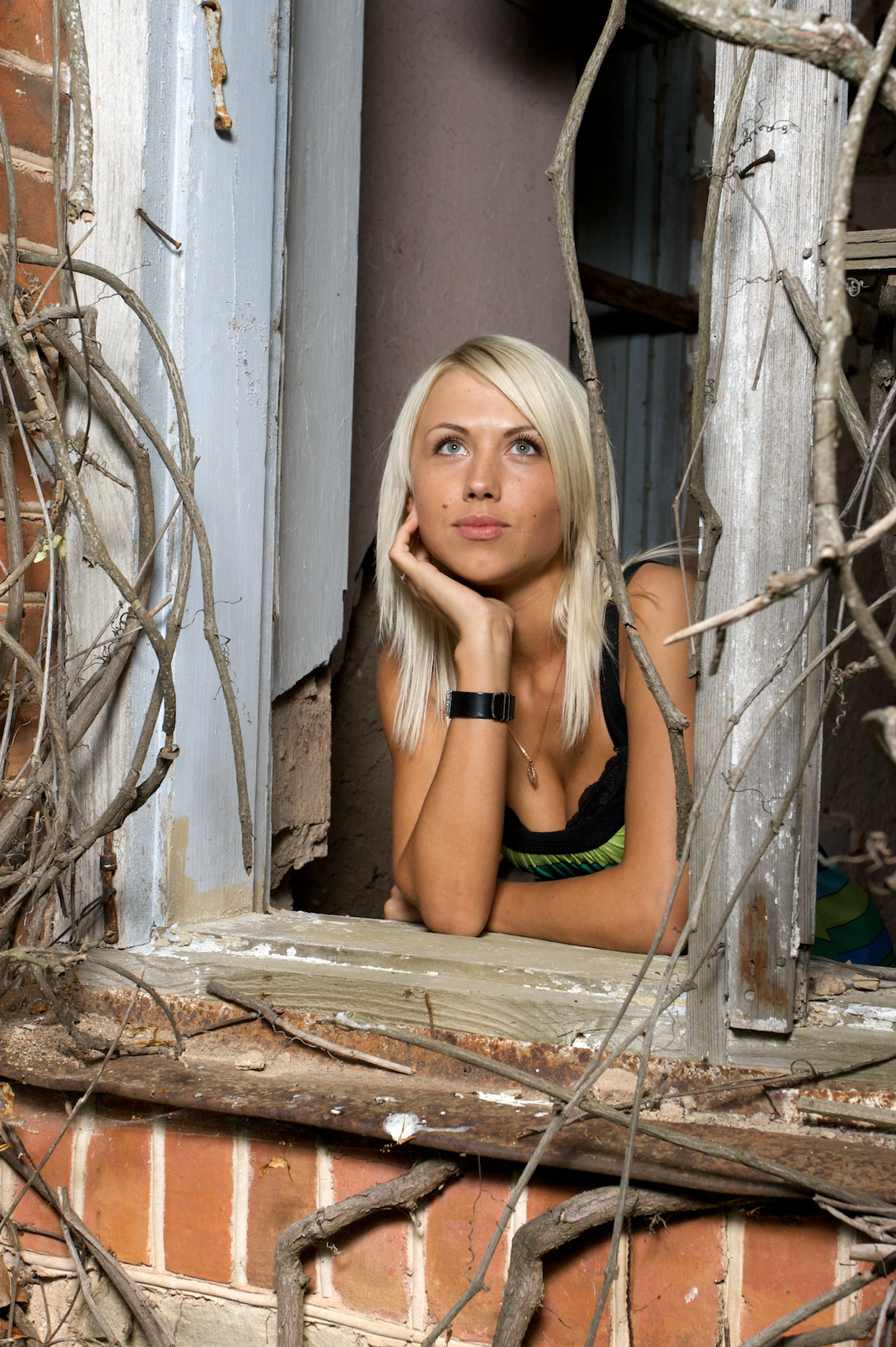 Blonde woman at the window of one building.